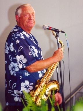 Boots Randolph - Mar 2000 Photo by Alan C. Teeple User:ACT1